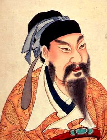 Emperor Wen Of sui dynasty